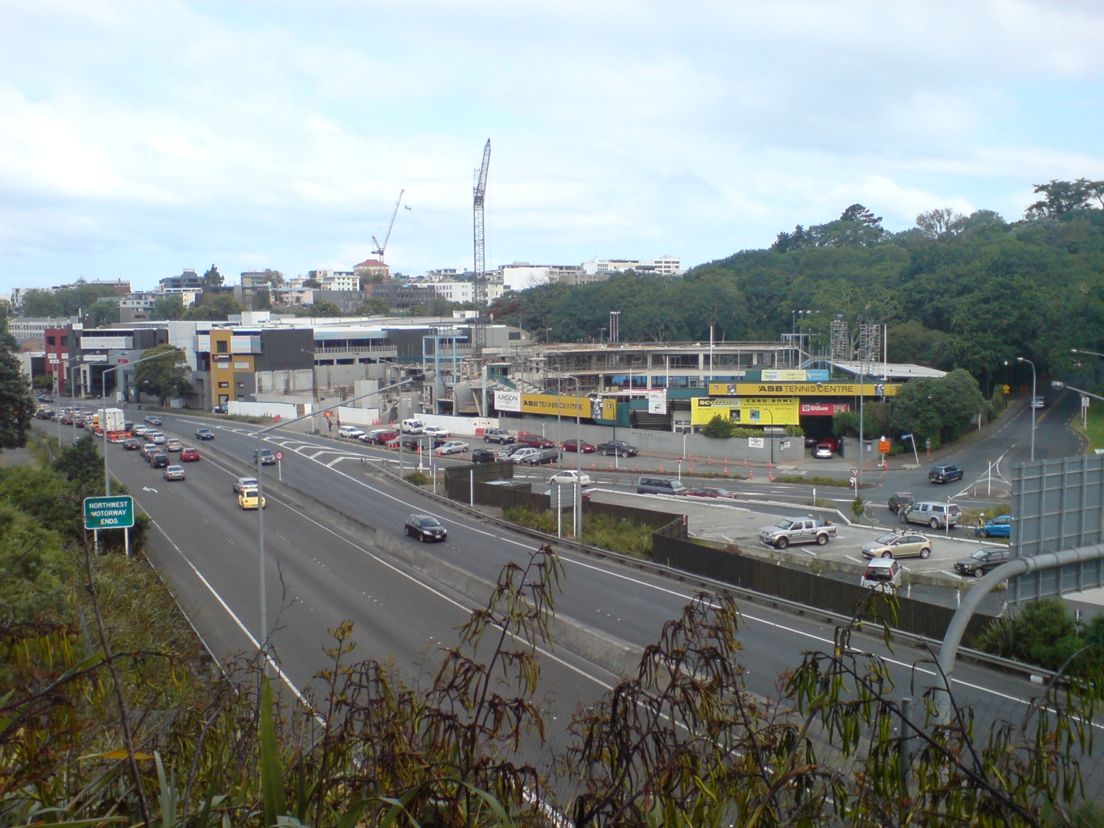 ASB Tennis Centre in Auckland, New Zealand looking northeast. Getting redeveloped / rebuilt.